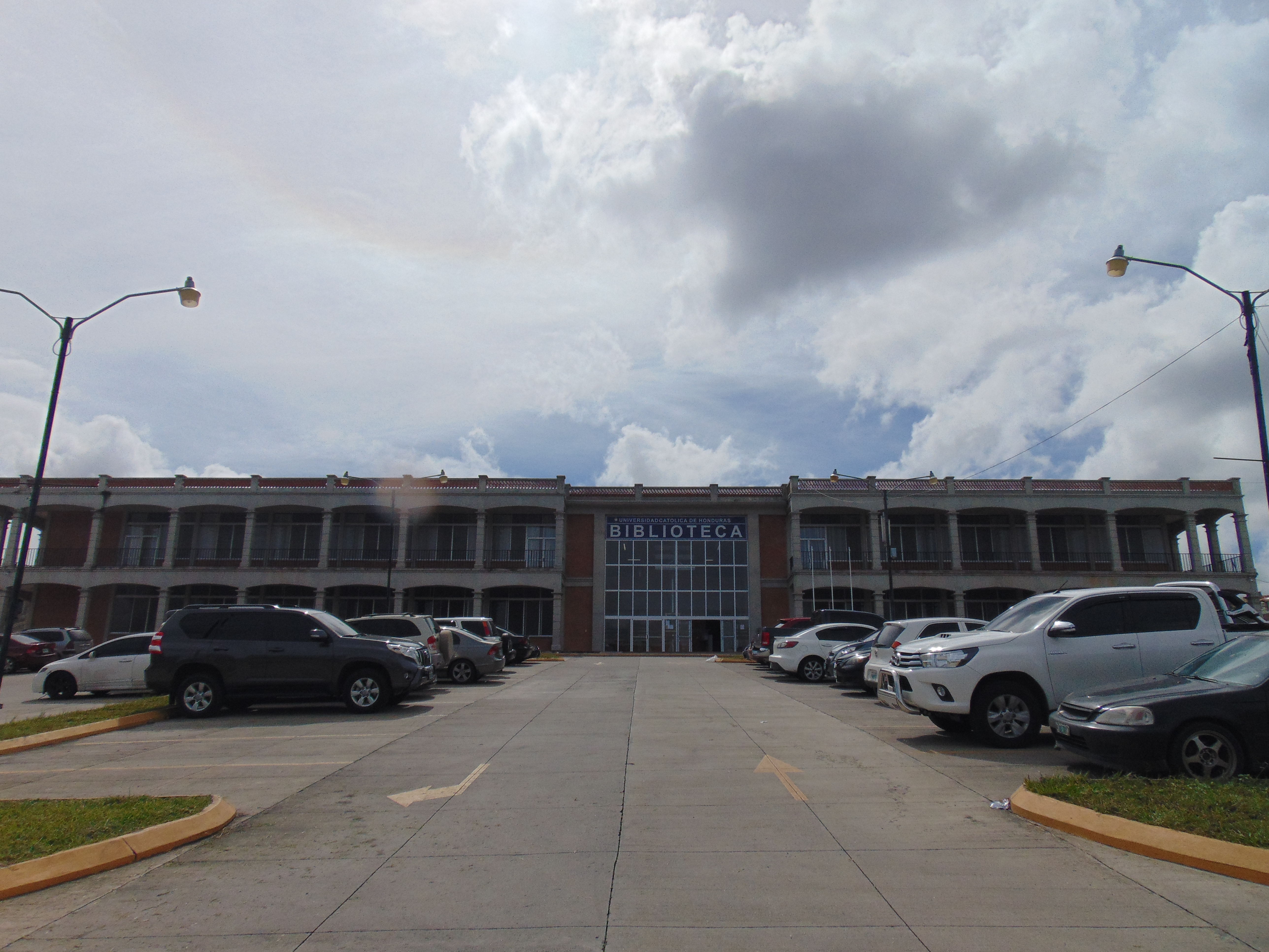 Front view of Biblioteca Dr. Elio David Alvarenga Amador